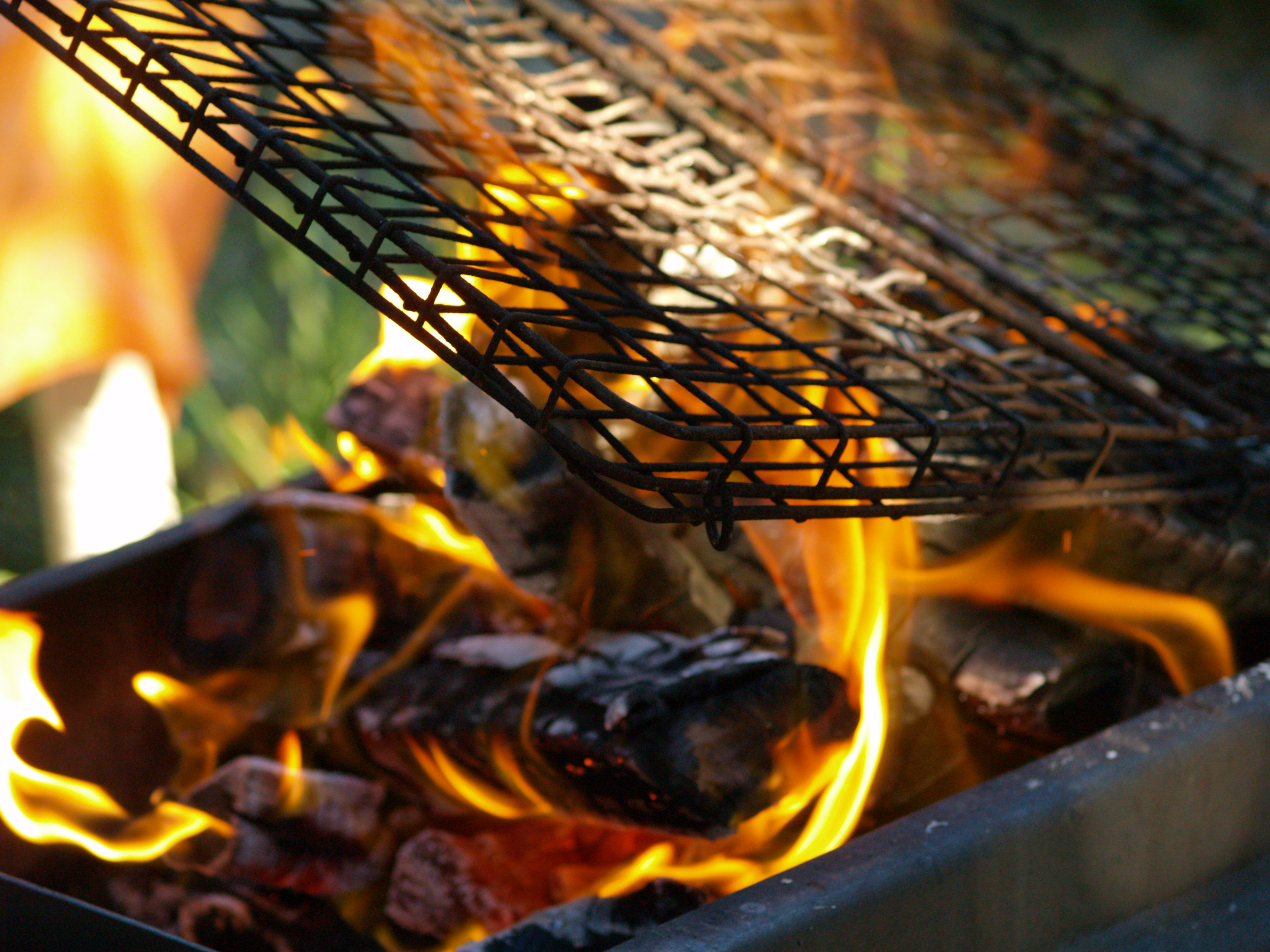 This is an image of food from South Africa